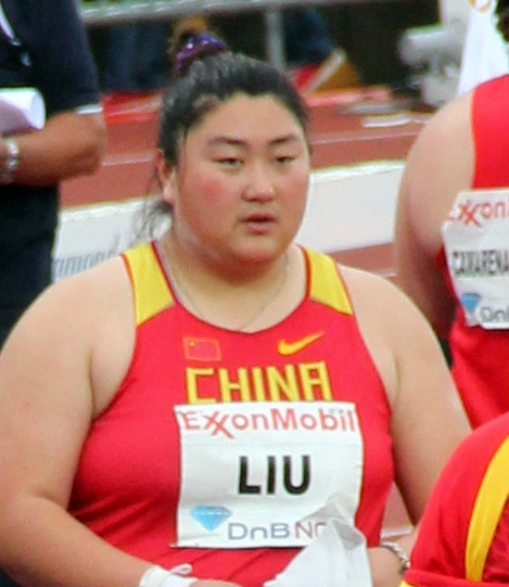 Liu Xiangrong at the 2011 Bislett Games